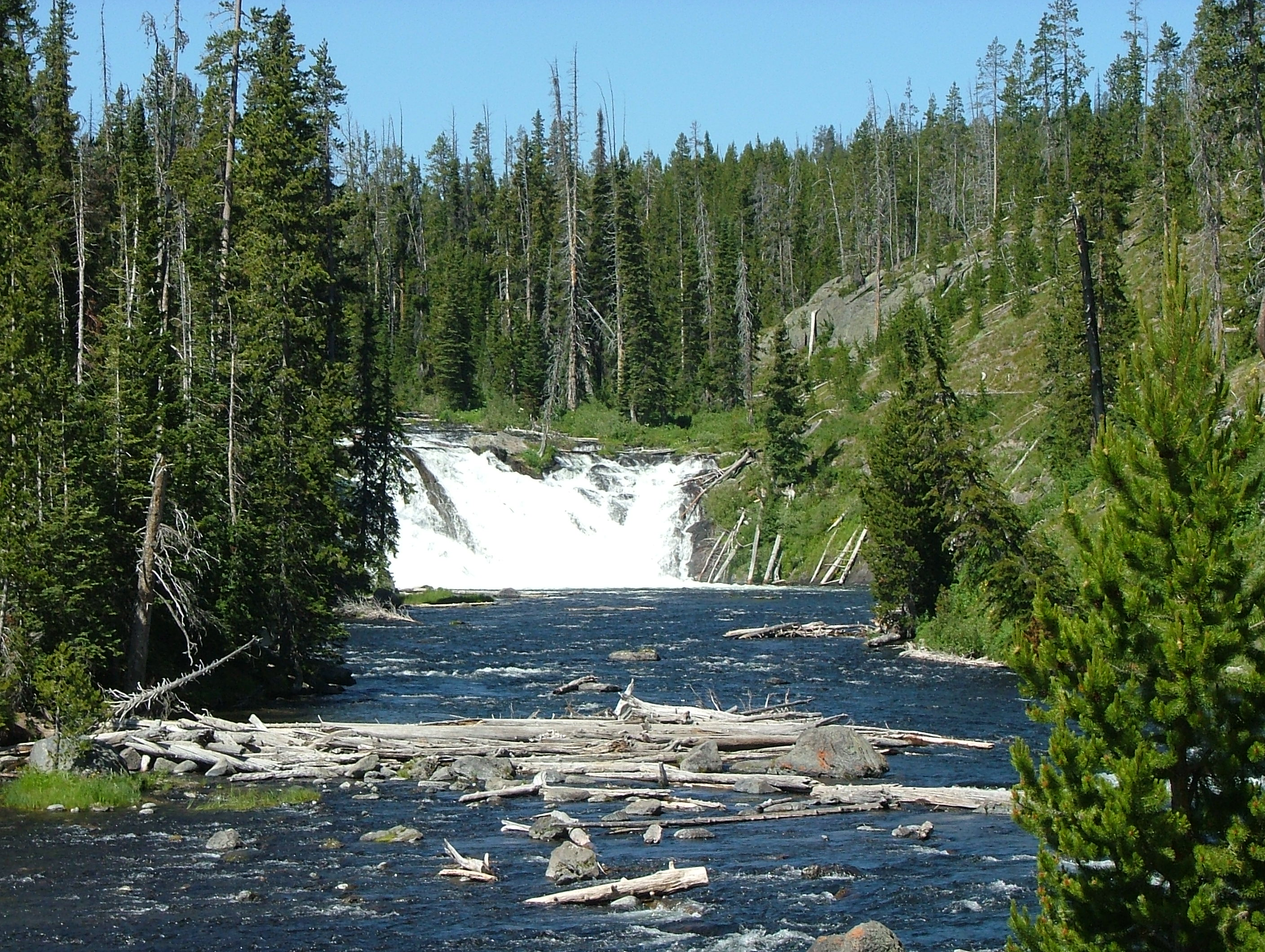 Lewis Falls, Yellowstone National Park. Photo by Jan Kronsell, 2006